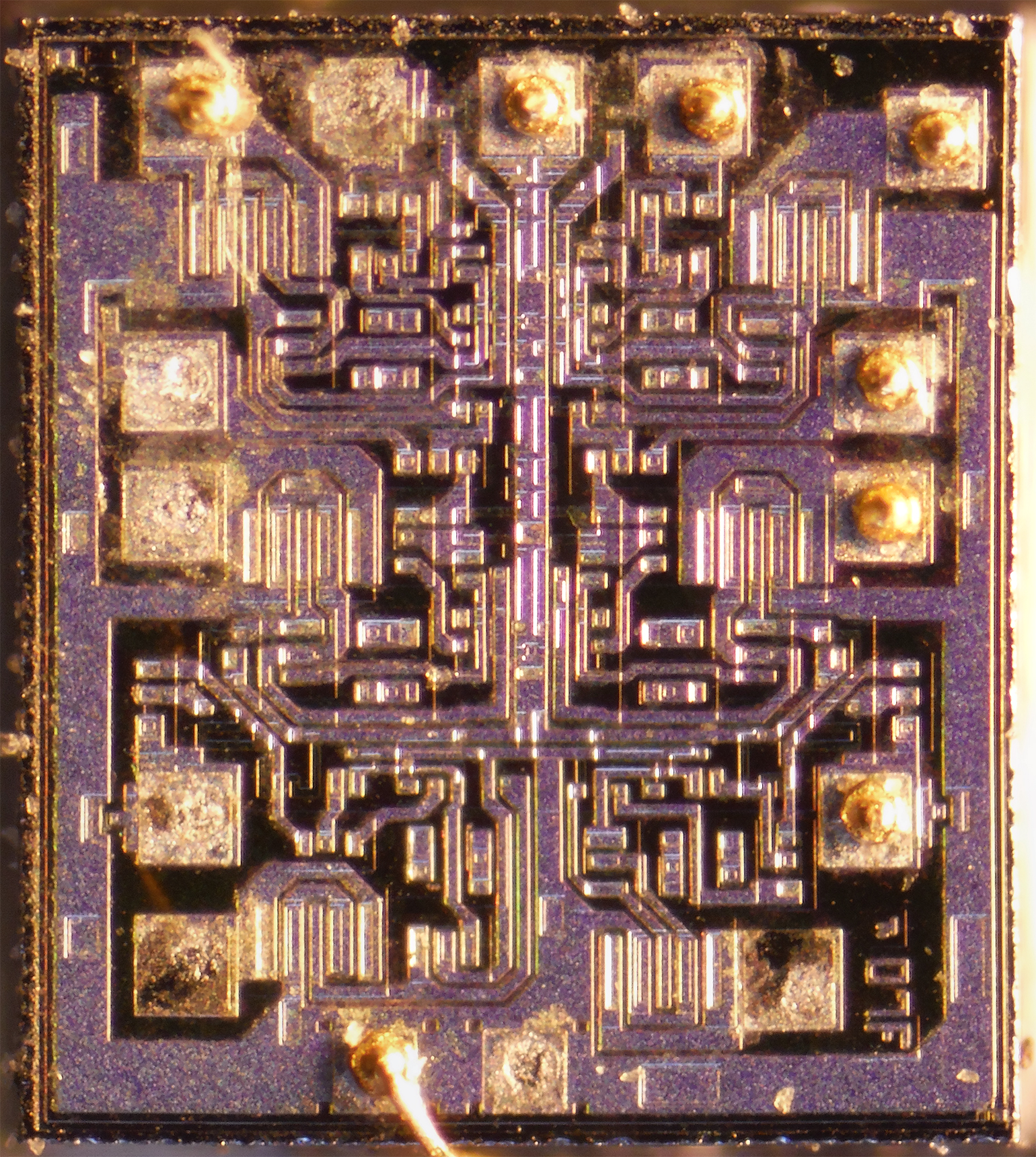 7407 die